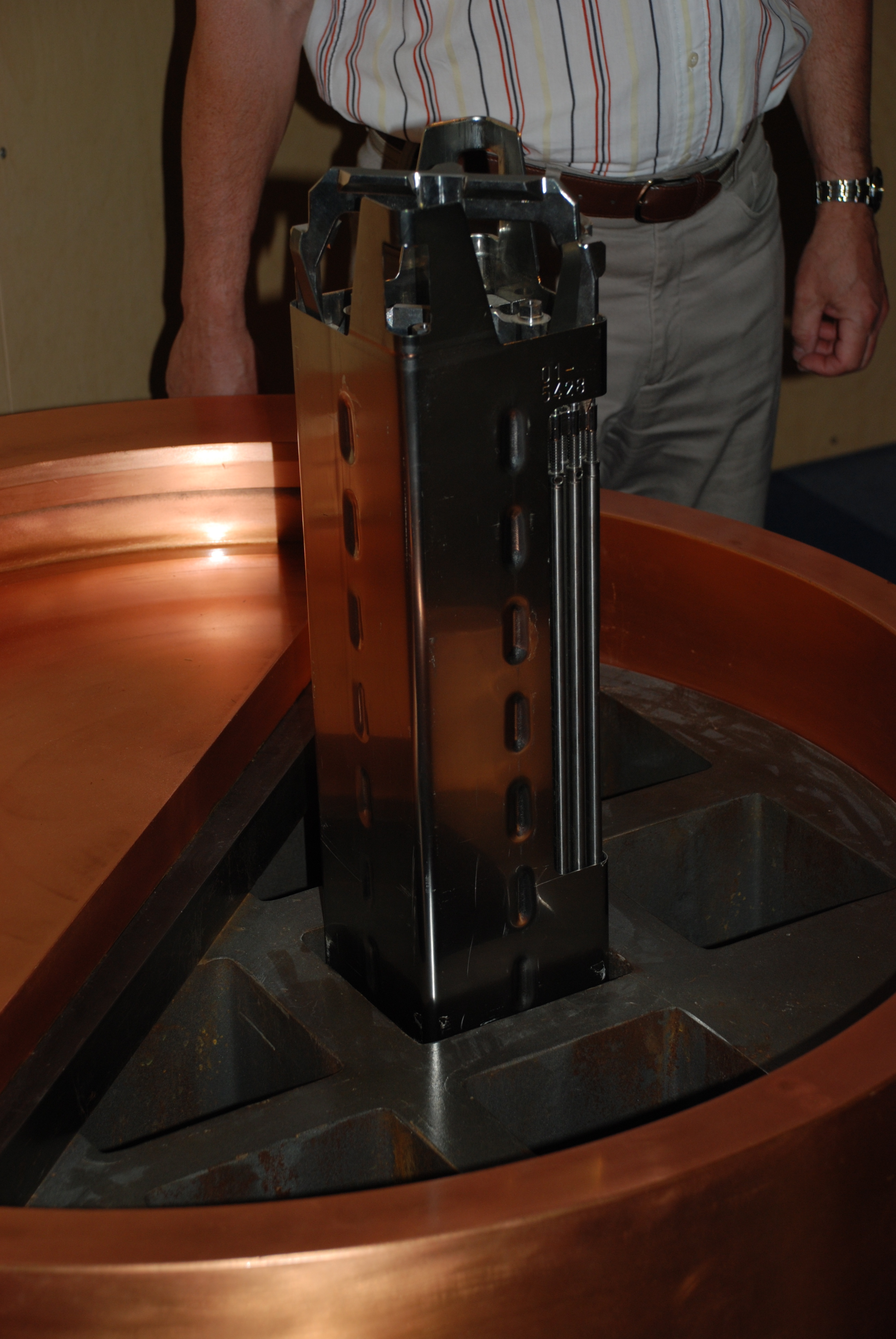 Top of a canister for waste nuclear fuel; the iron insert of the copper canister contains channels for assemblies of nuclear fuel.